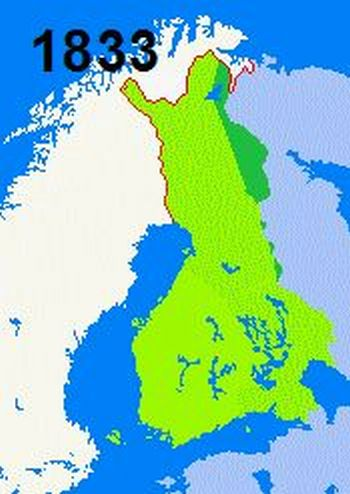 Border changes in Finland 1833